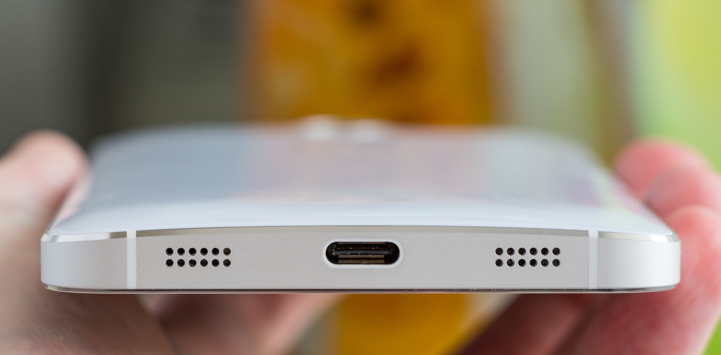 USB Type C port on the bottom of a LeTV X600 smartphone